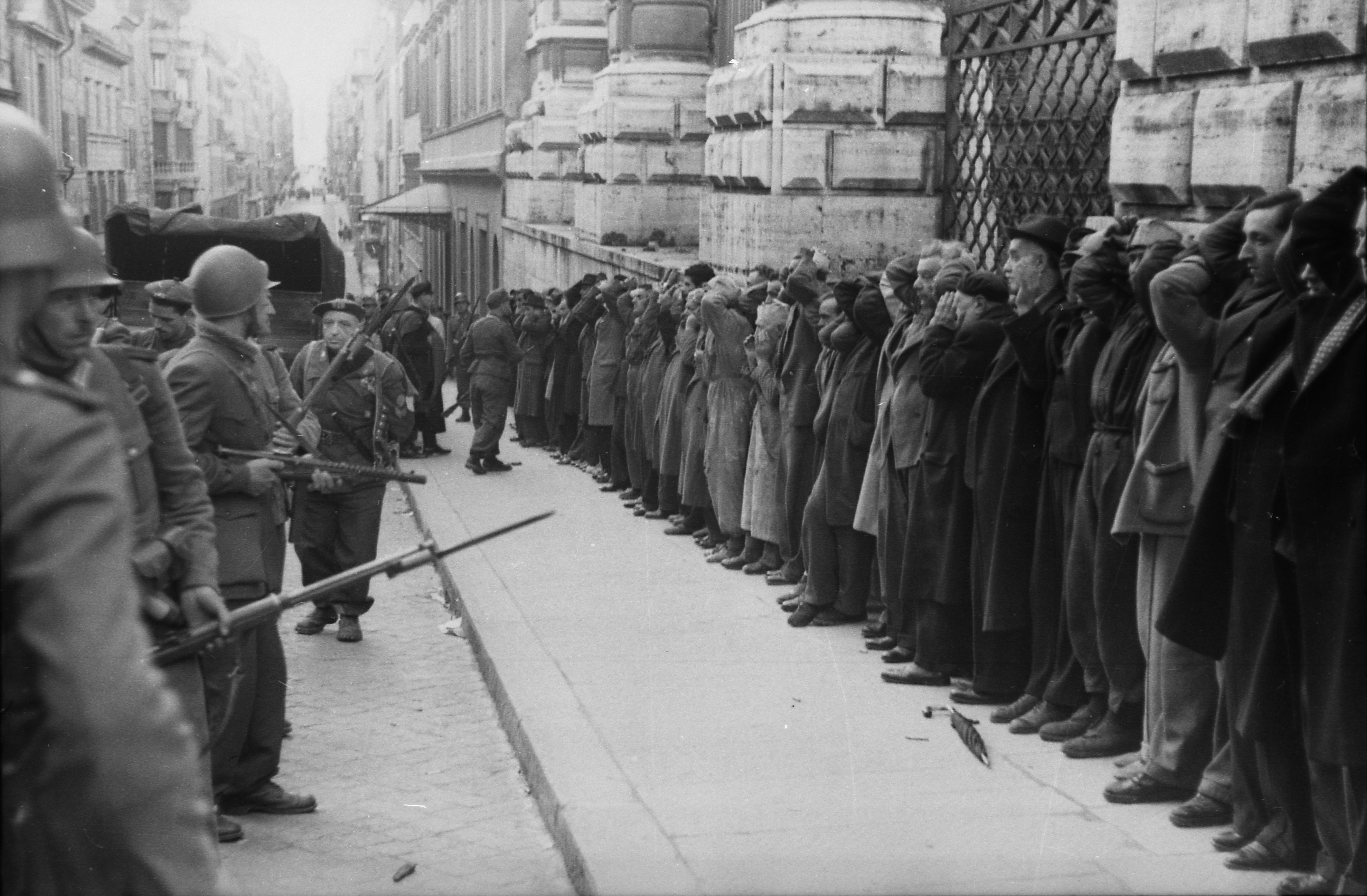 Information added by Wikimedia users.*